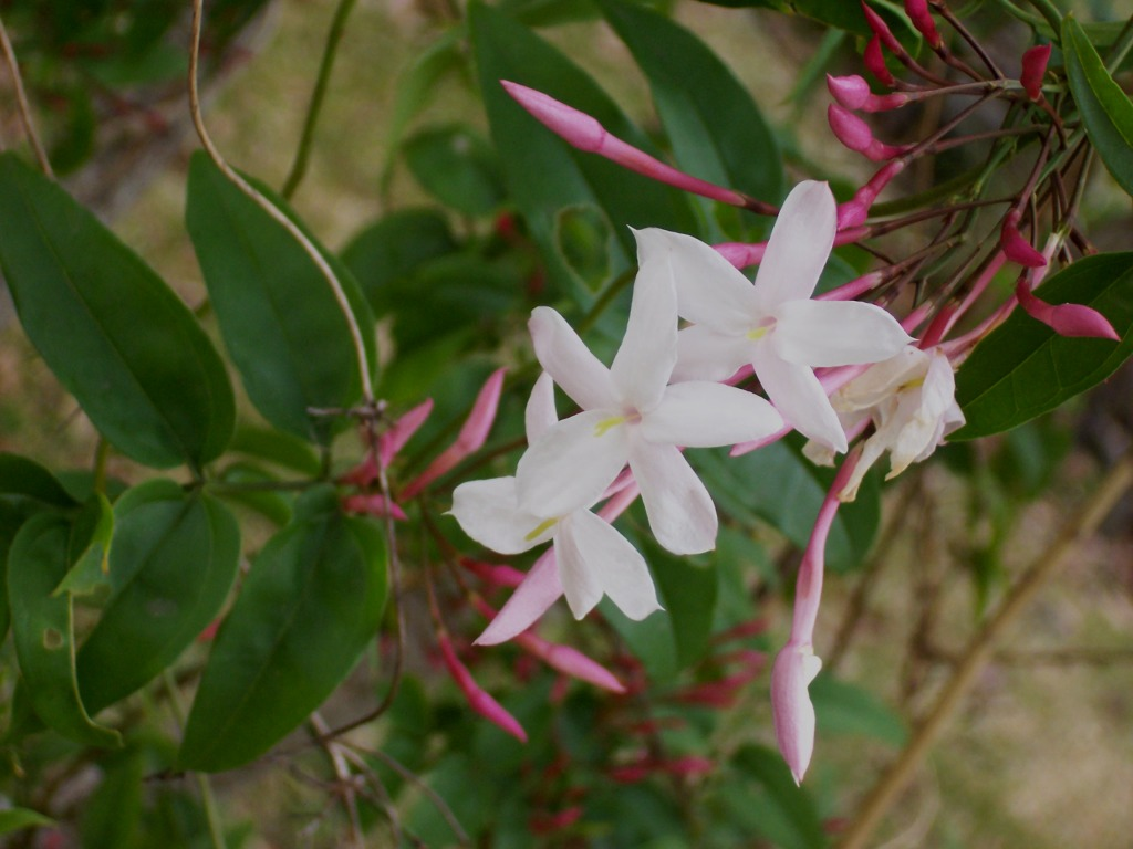 Pink jasmine (Jasminum polyanthum) - flowers. Reunion island.